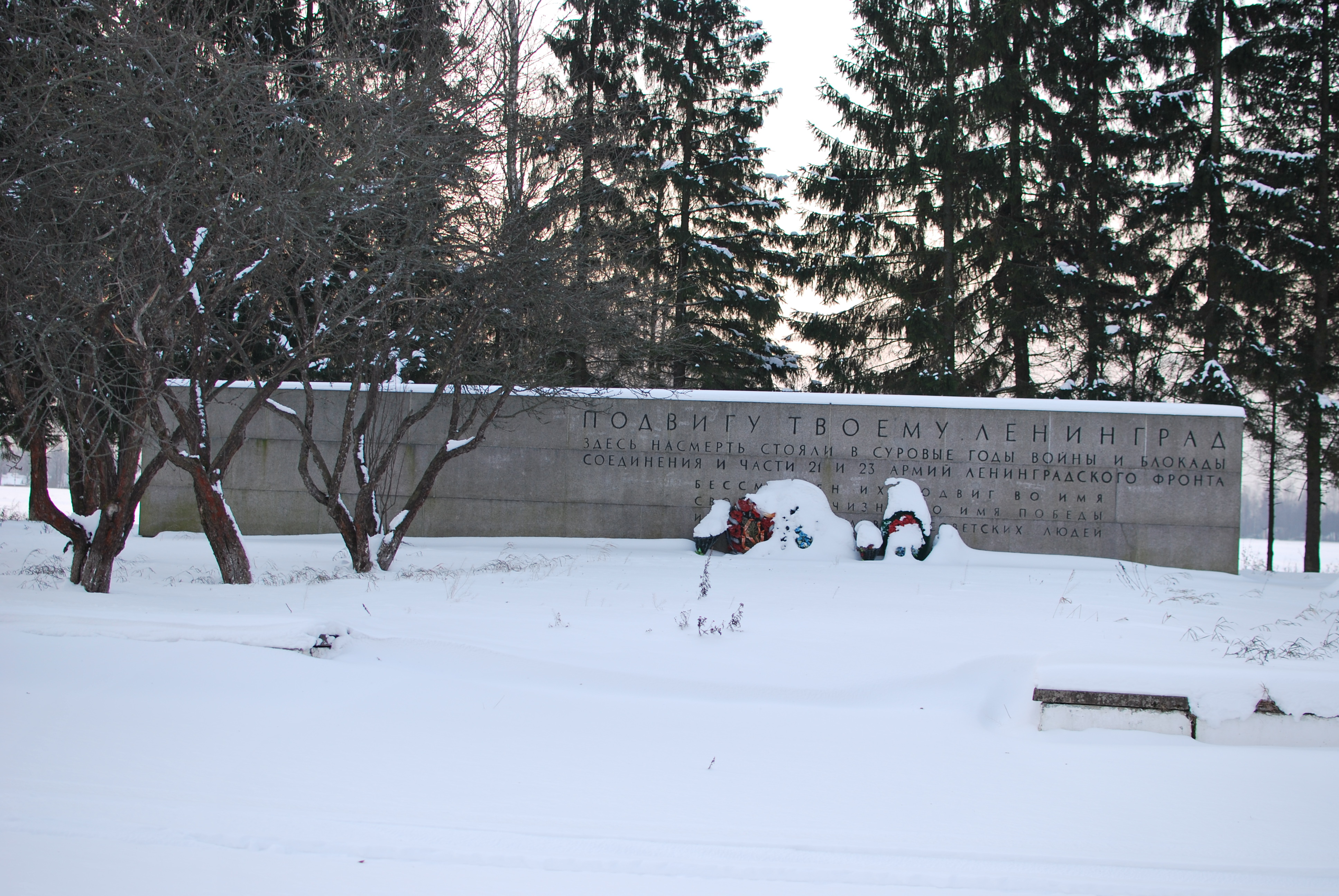 Garden of Peace memorial